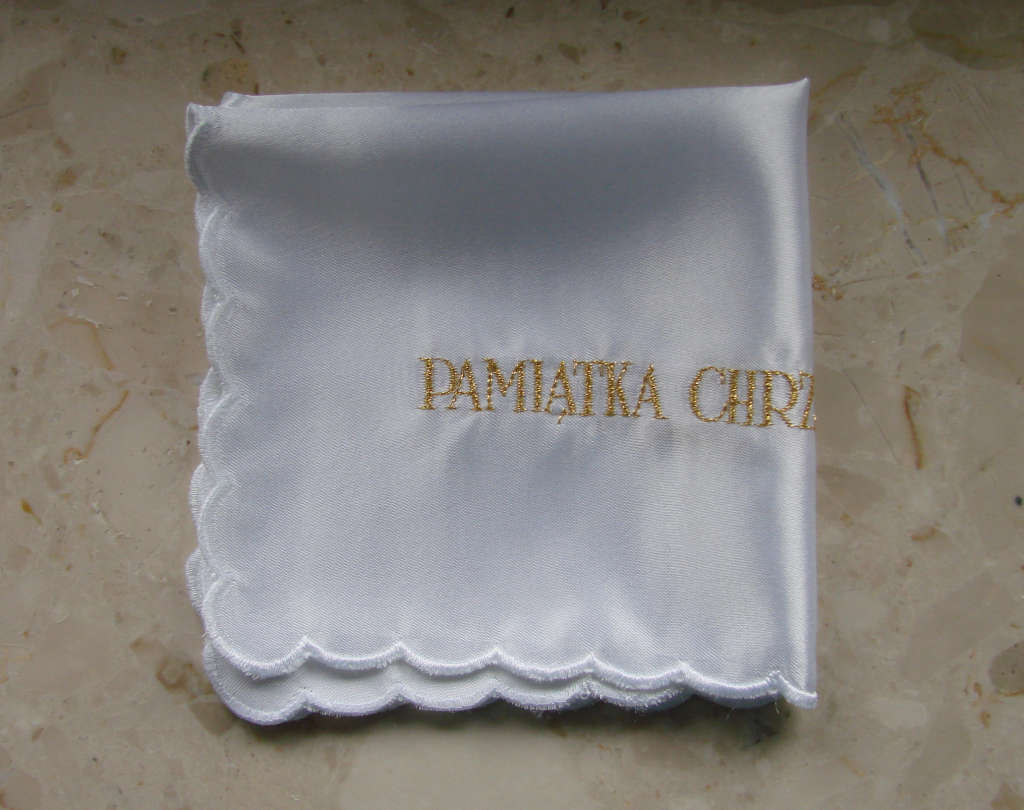 Handkerchief